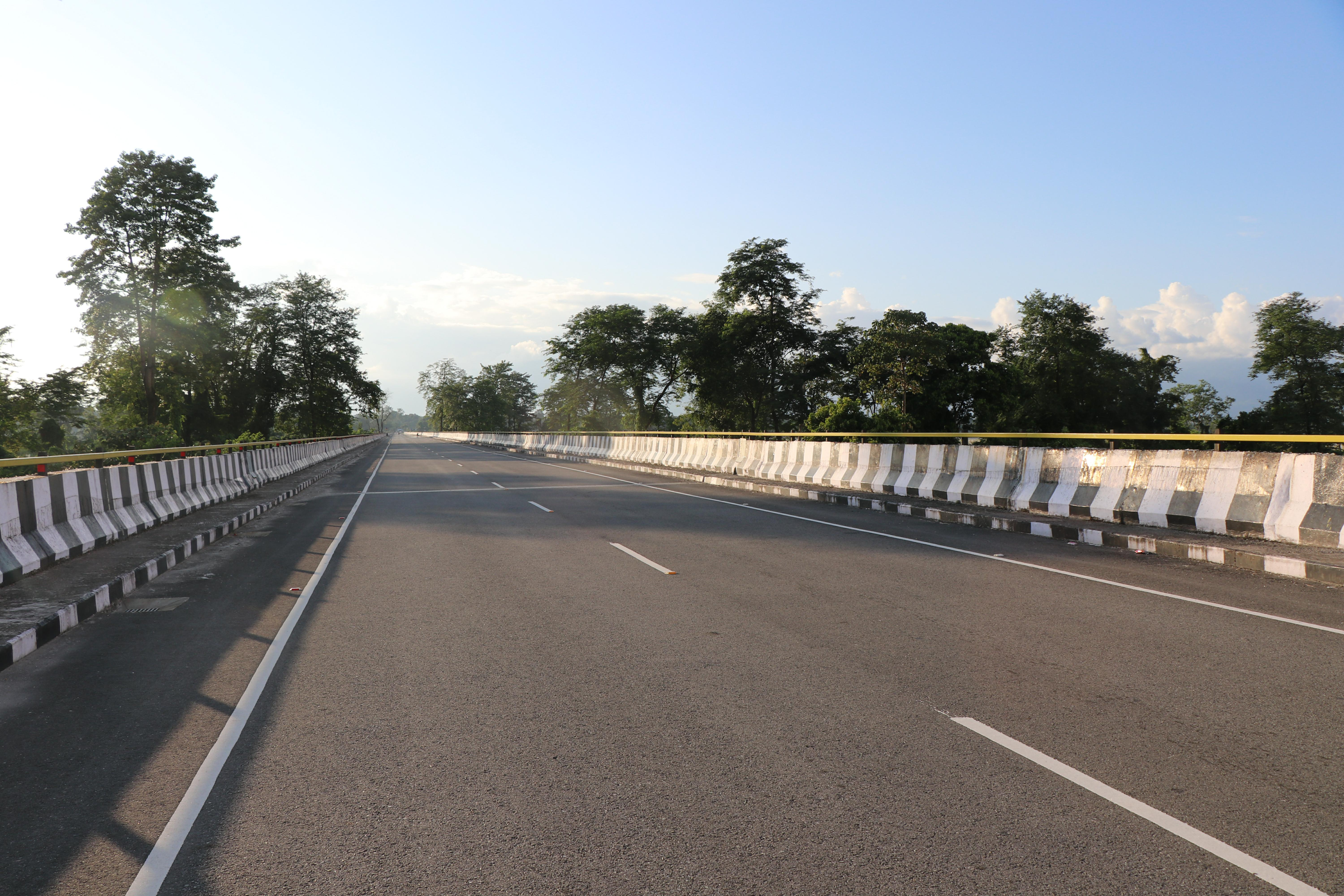 The Bridge Passing over one of the many Islets in between